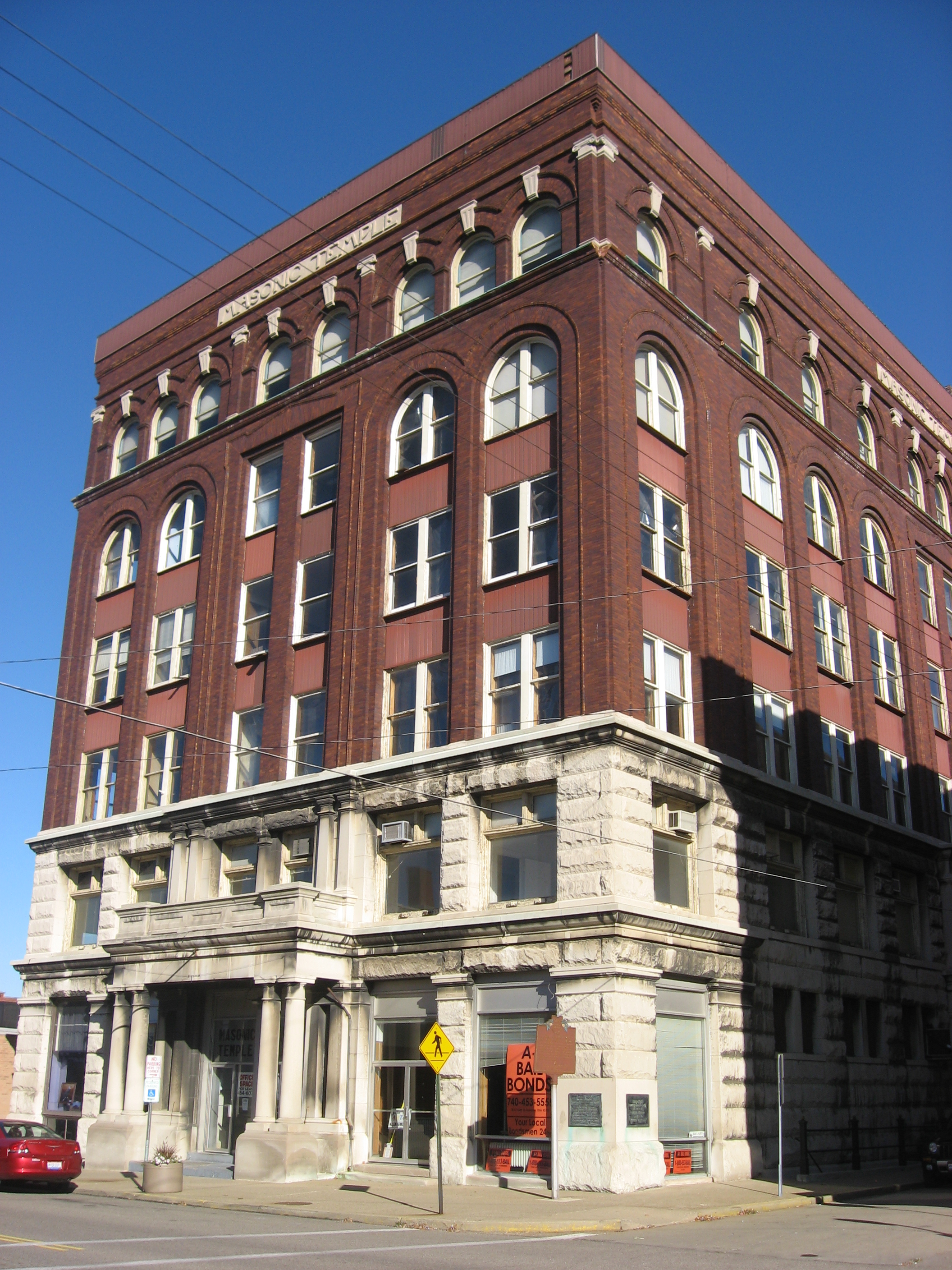 Front and western side of the Masonic Temple Building, located at 36-42 N. Fourth Street in Zanesville, Ohio, United States. Built in 1903, it is listed on the National Register of Historic Places.